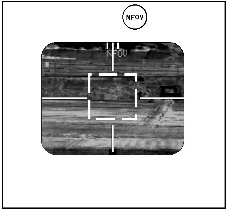 Imaged Infrared photo, target not visible due to IR-clutters